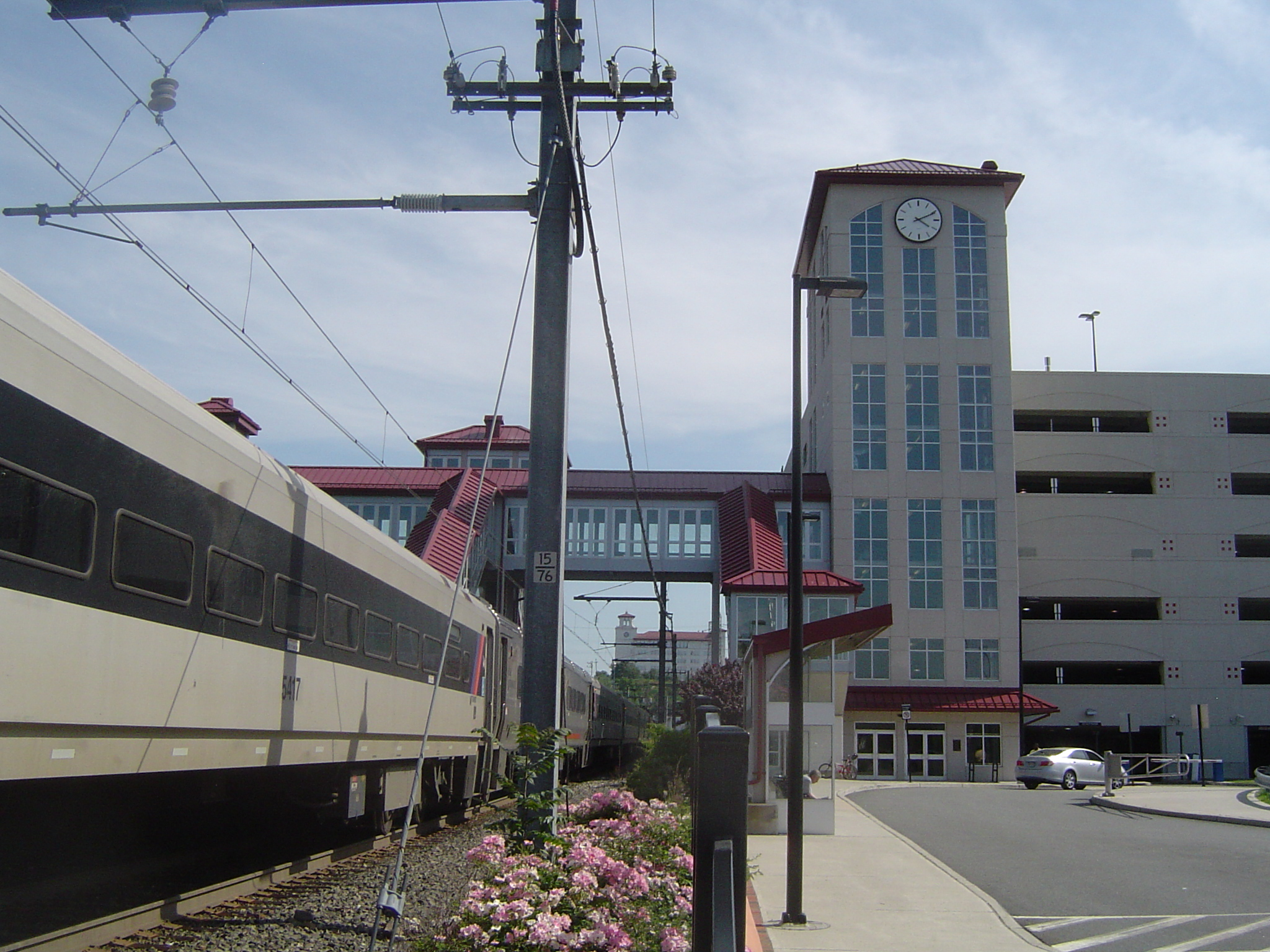 picture of the station